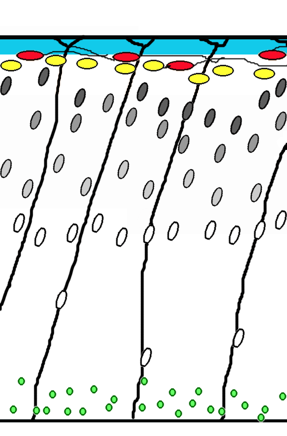 Corticogenesis in a brain of a reeler mutant mouse (lacking the Reelin protein). Six cortical layers are disorganized and inverted. Subplate cells mingle with Cajal-Retzius cells, creating the so-called "superplate". Radial glia fibers grow askew.